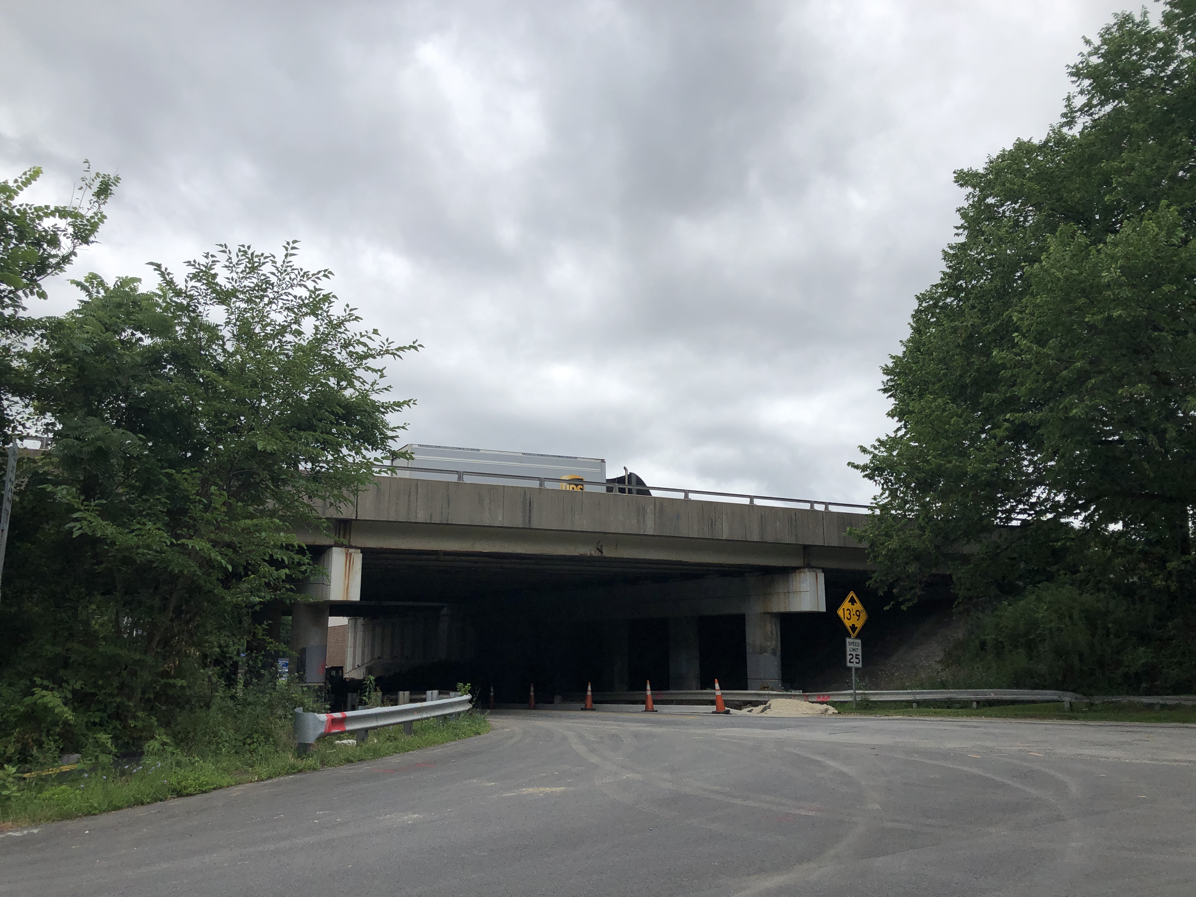 I-695 Bridge over Ingleside Ave